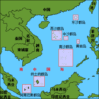 Map (rough) of South China Sea, own work composed from various mapreferences